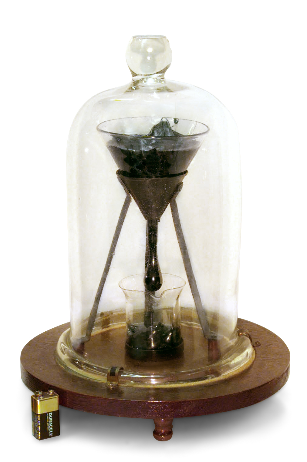 Picture of the Pitch Drop Experiment at the University of Queensland, with 9-volt battery for size comparison